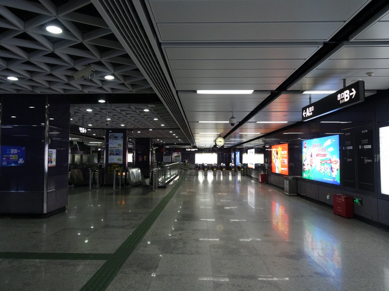 科韻路站嘅站廳